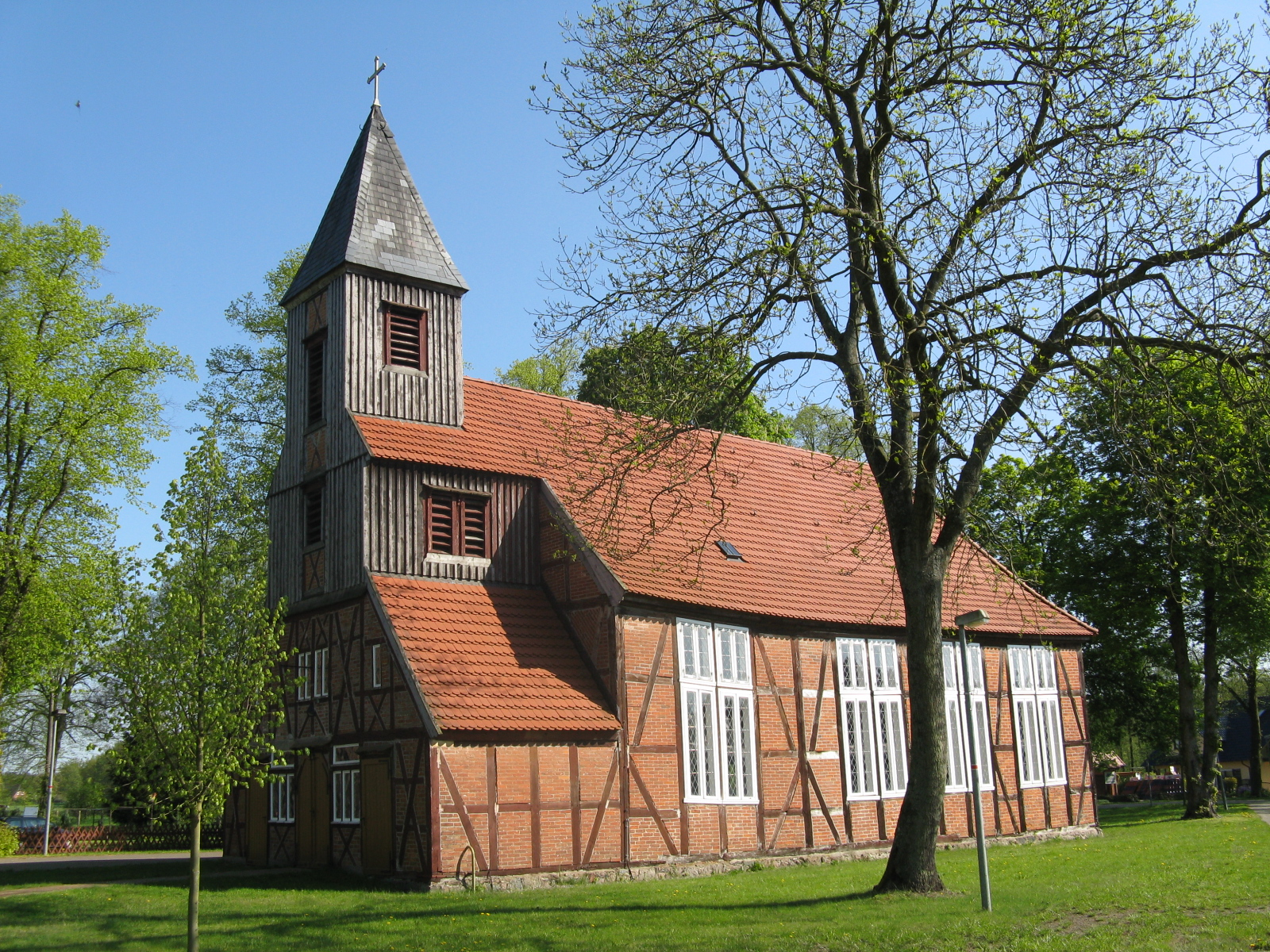 Church in Kirch Jesar, Mecklenburg-Vorpommern, Germany